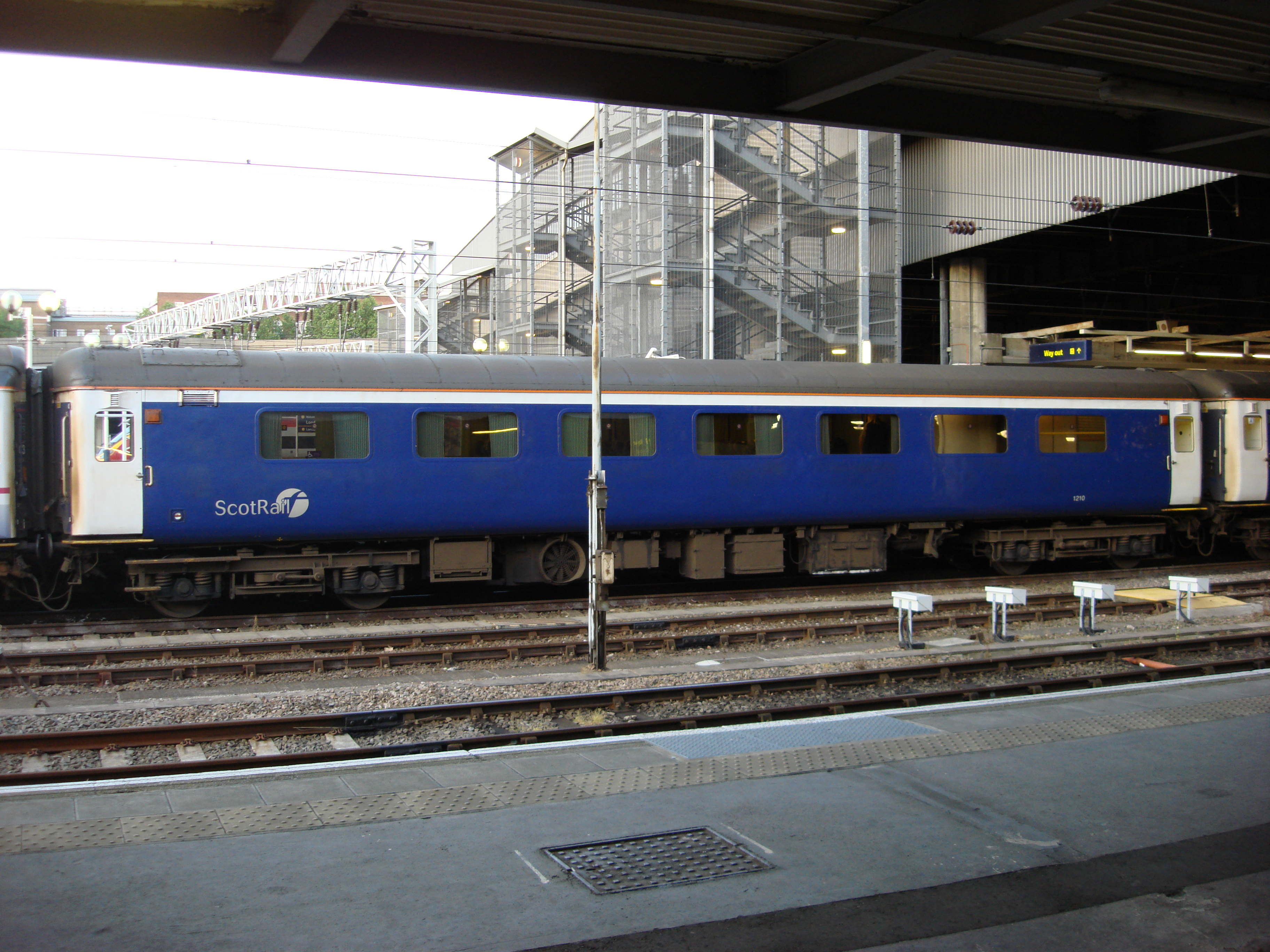 British Rail Mk2 coach owned by ScotRail at Euston, part of the "Caledonian sleeper"